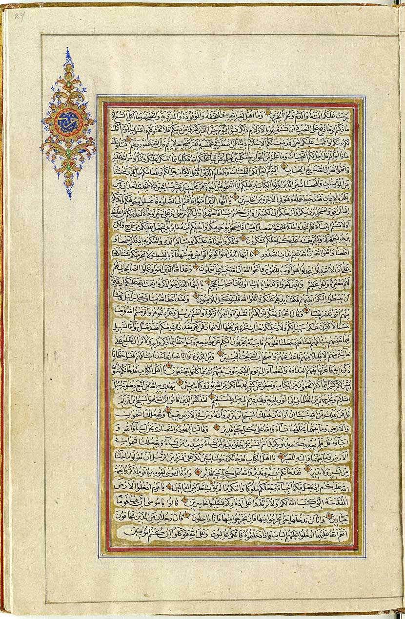 Scan of a Qur'an from the year 1874